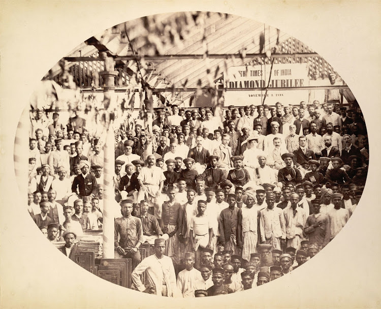 Print by E.O.S. and Company of employees of the Times of India, Mumbai, taken on the occasion of the newspaper's Diamond Jubilee (60 years), November 1898. The album contains the text of an address read at the Jubilee celebrations by F.A. Periera, Chief Clerk of the Job Department dedicated to the editor T.J. Bennett and the managing proprietor F.M. Coleman. It includes the following extract, "There has been a steady increase in the number of workmen from 200 to about 800. In type, presses, machines, binery and casting materials the establishment has so much increased that it is second to none in India. The paper is so ably conducted that we might say, with pardonable pride, that it has become a power in the Empire. It's circulation has immensely increased, and there is hardly any city in India in which it is not read, and it also has a large circulation in Europe."